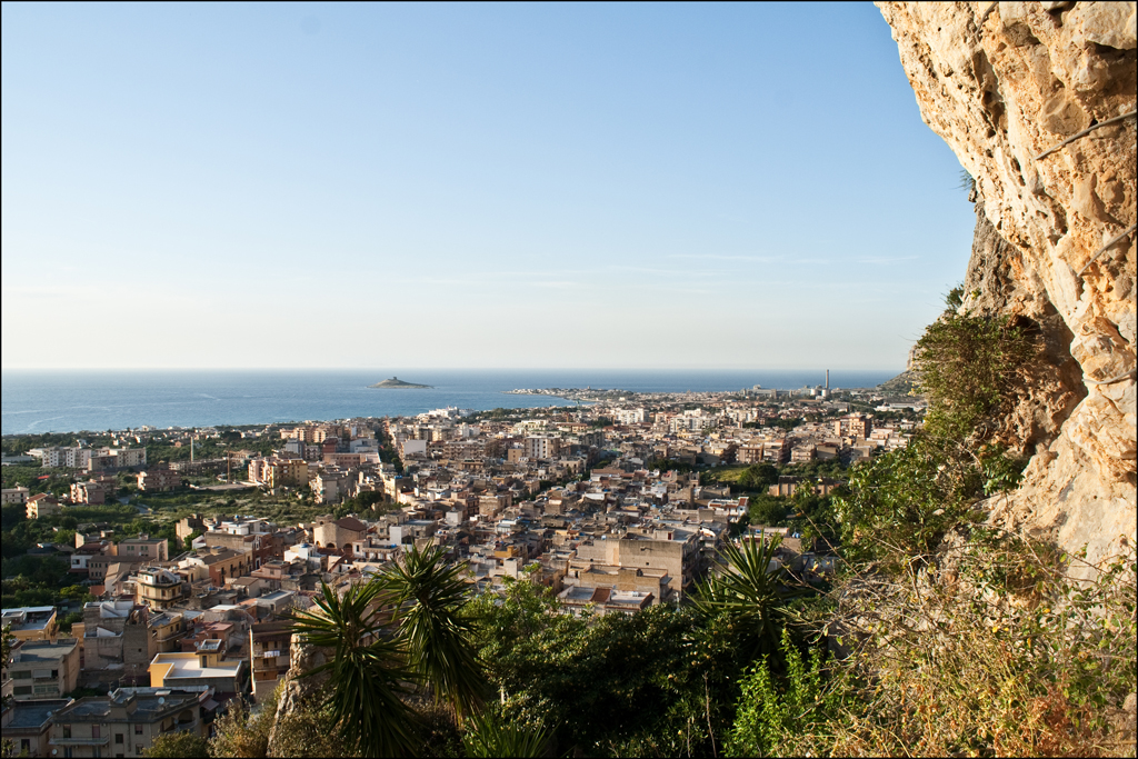 nonsolophoto - Capaci (PA) - 556 Copyright © 2012 Federico Patti. All rights reserved. Please, do not use my photos without my written permission.